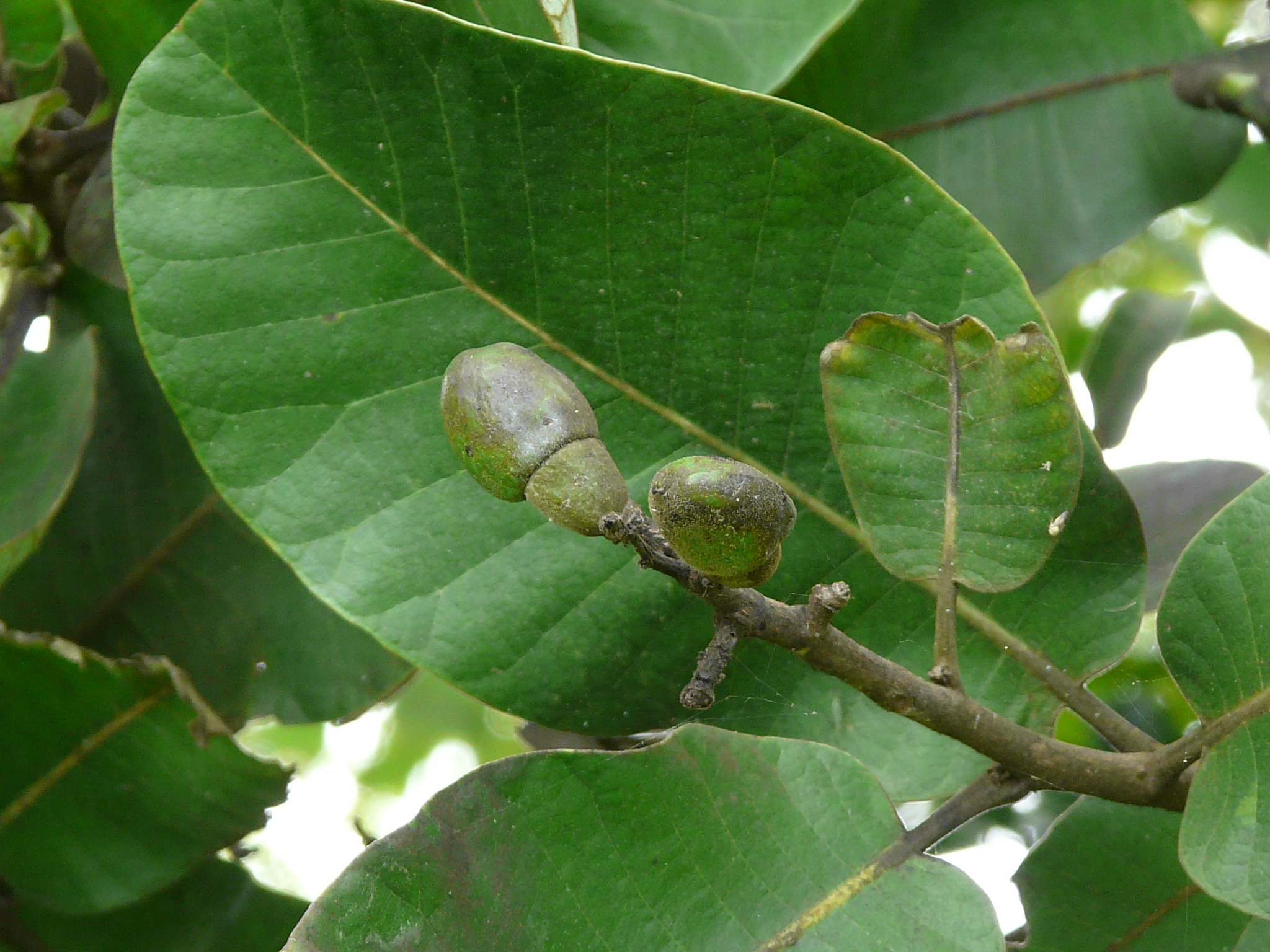 commonly known as: dhobi nut tree, Indian marking nut tree, Malacca bean, marany nut, marsh nut, oriental cashew nut, varnish tree • Arabic: habb al fahm • Assamese: ভলা bhala • Bengali: ভল্লাত bhallata, ভল্লাতক bhallataka • Danish: ostindisk elefantlus •